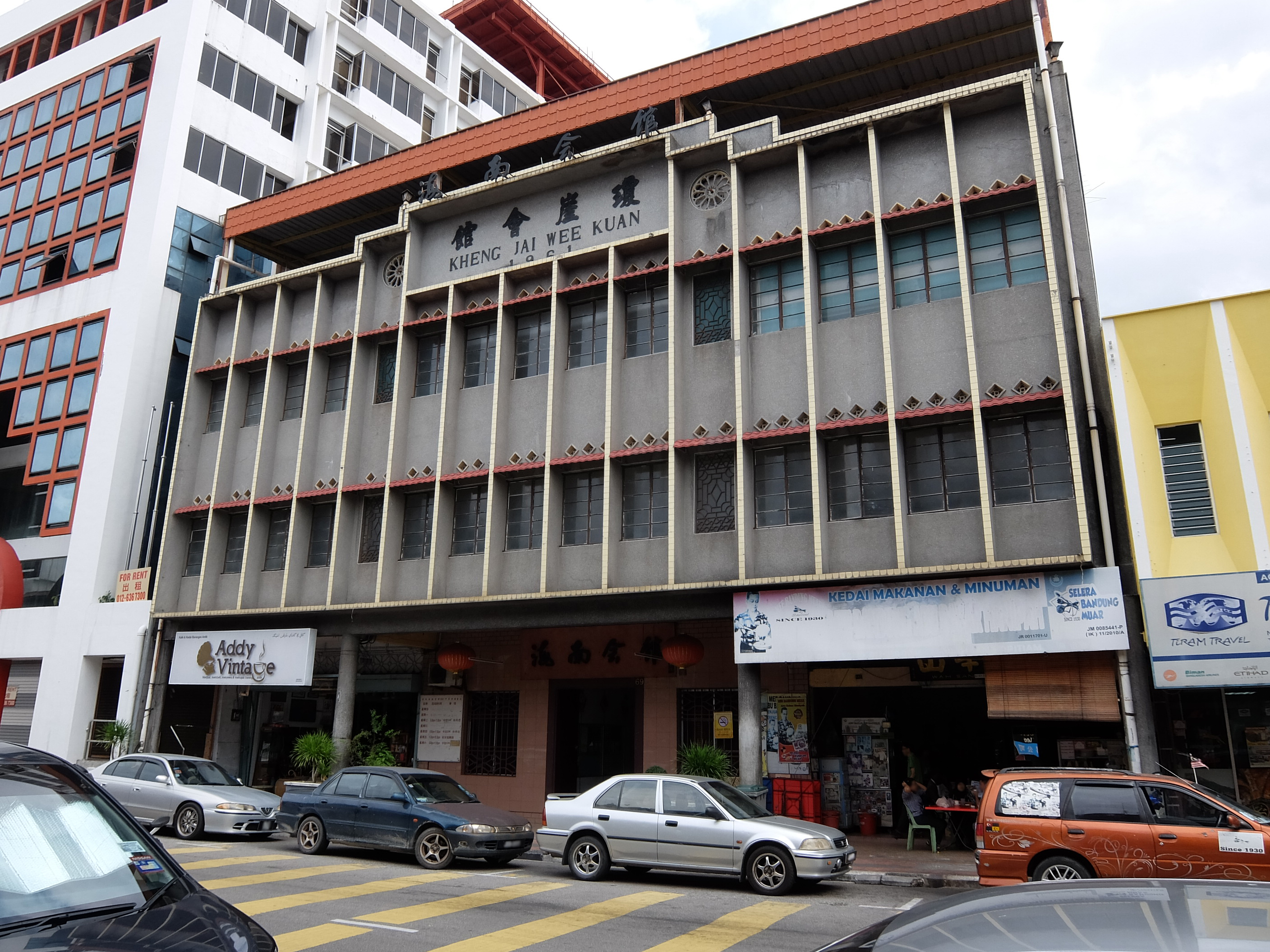 Muar Hainan Association, Bandar Maharani, Muar, Johor, Malaysia